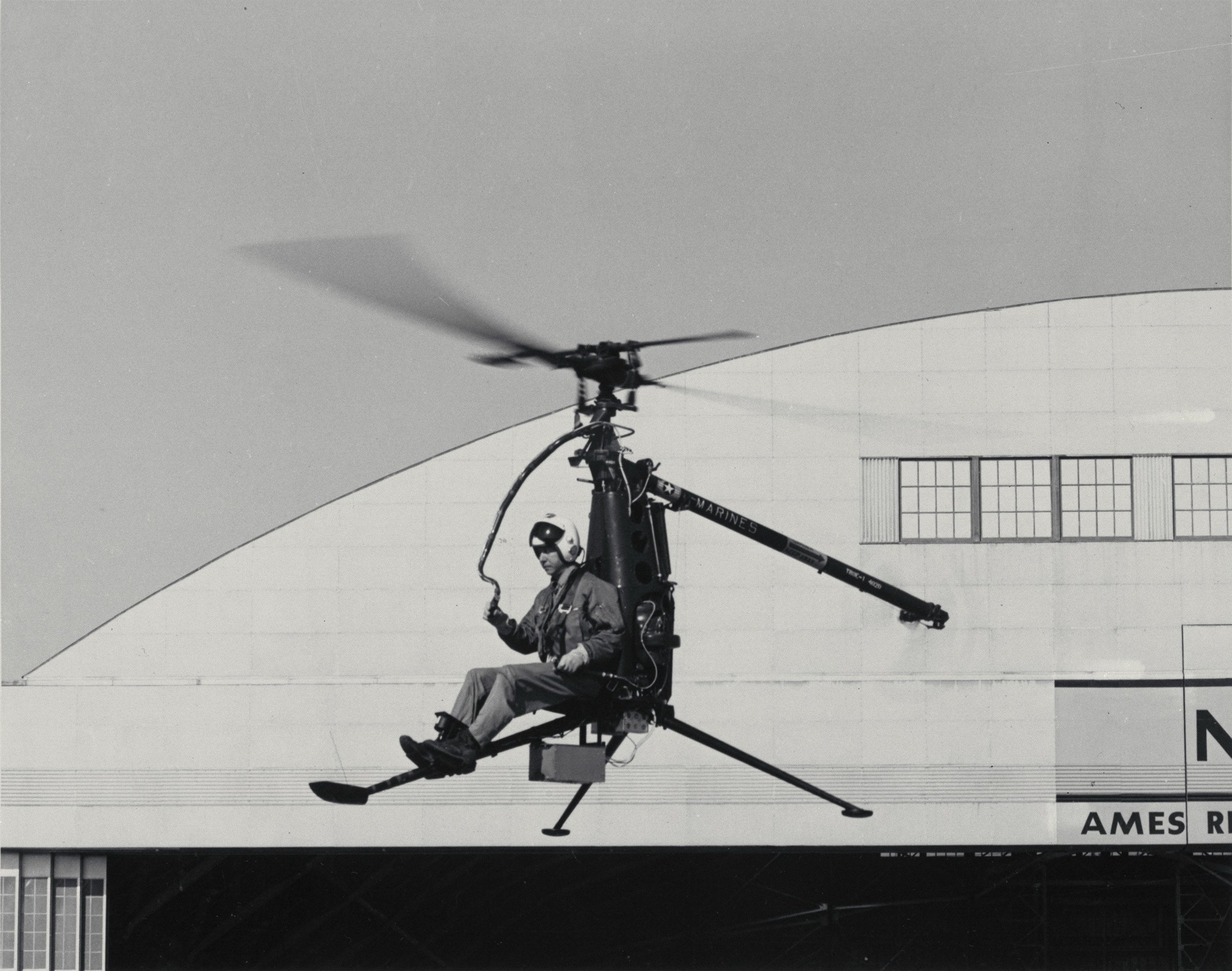 The Hiller rotorcycle YROE-1, made by Hiller Helicopter in nearby Palo Alto, California, hovers in front of the Ames Hangar.